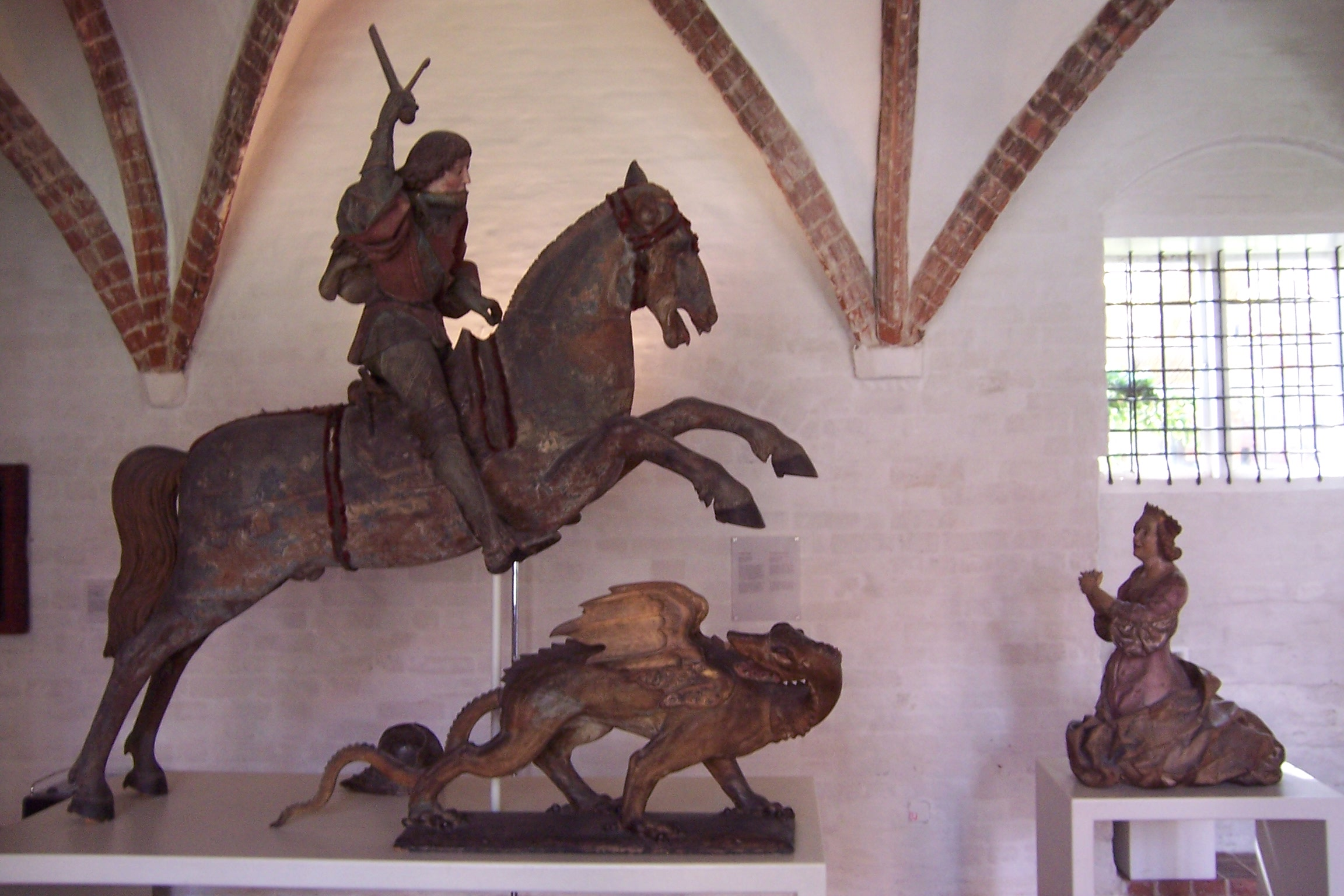 St. George slaying the dragon by Henning van der Heide, 1504/5, originally in the old St. Jürgen (St. George) chapel, now in the St.-Annen-Museum, Lübeck